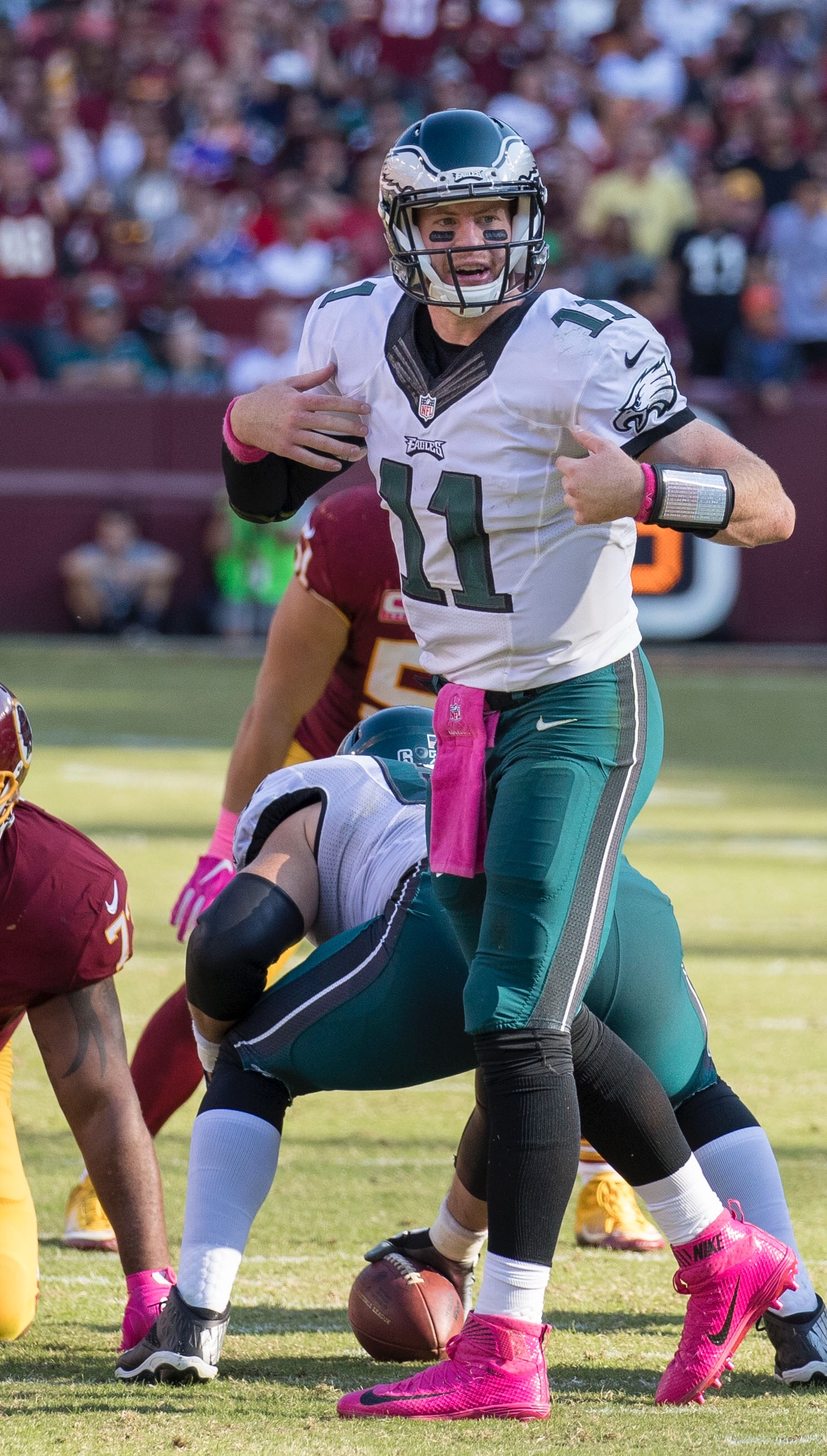 Cropped image of Carson Wentz Signaling to Running back Ryan Mathews